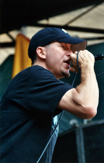 Dave Quackenbush, singer of the American punk rock band The Vandals, performing on the 2004 Warped Tour in Noblesville, Indiana.